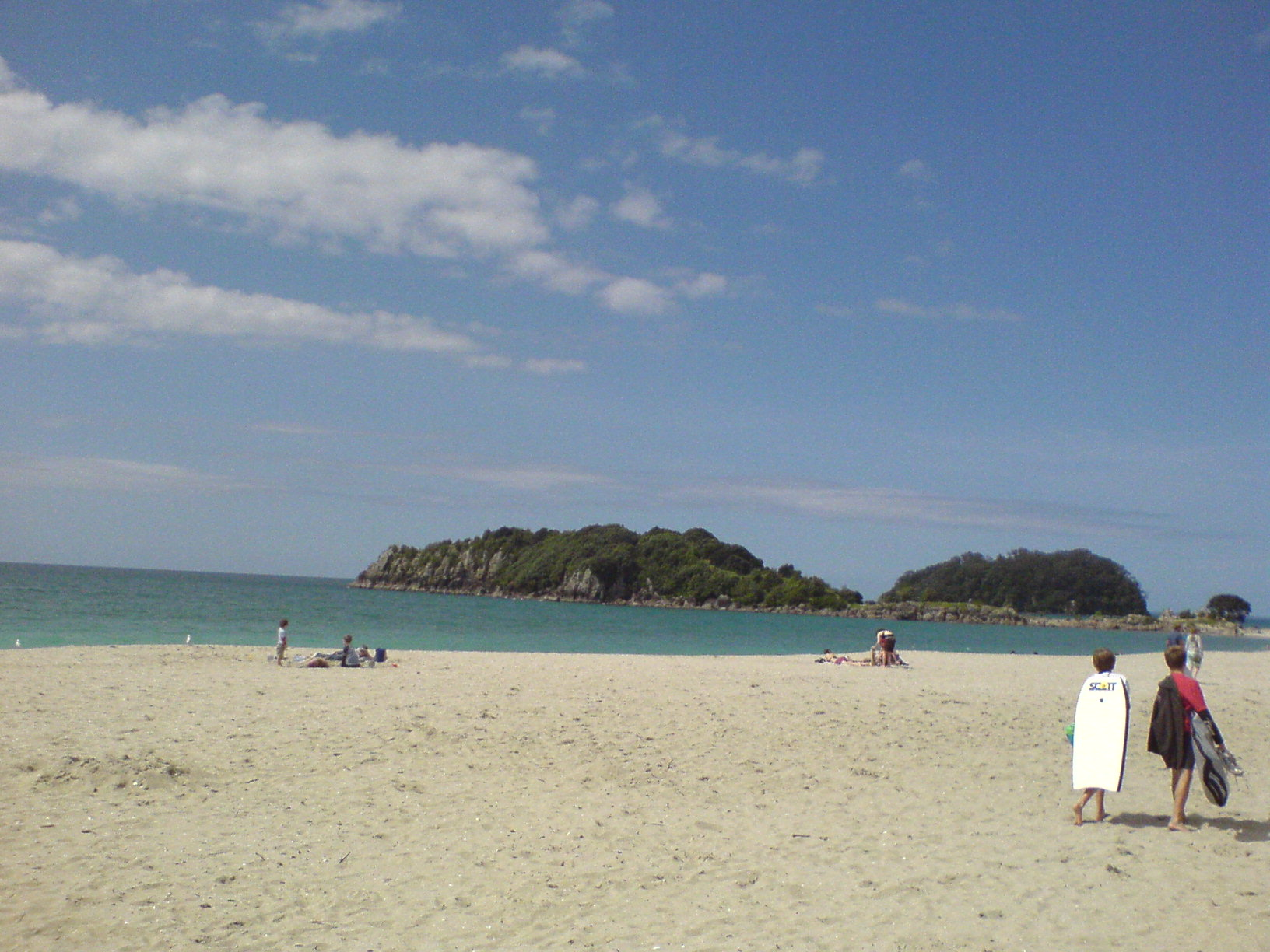 Mount Maunganui main beach (middle of winter) in Tauranga, New Zealand